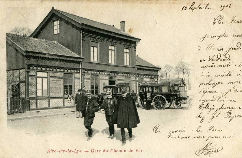 Aire-sur-la-Lys station